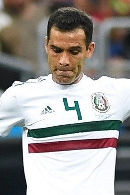 Rafael Márquez